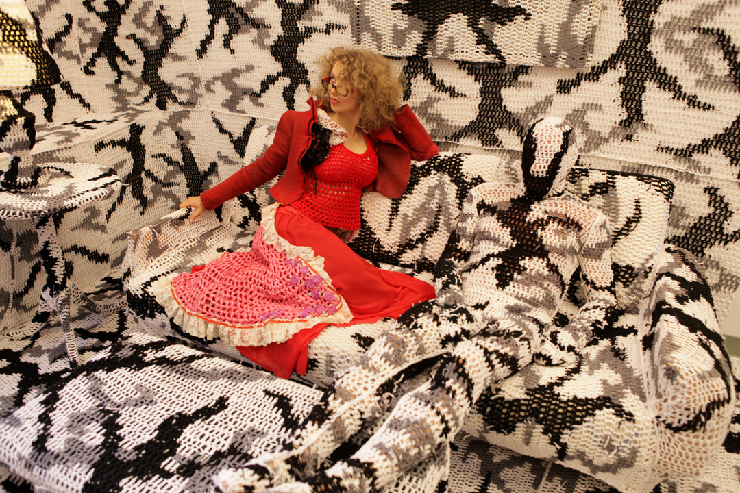 Olek in her installation: "Homage to Keith Haring". Created during Workspace, LMCC residency, NYC 2011